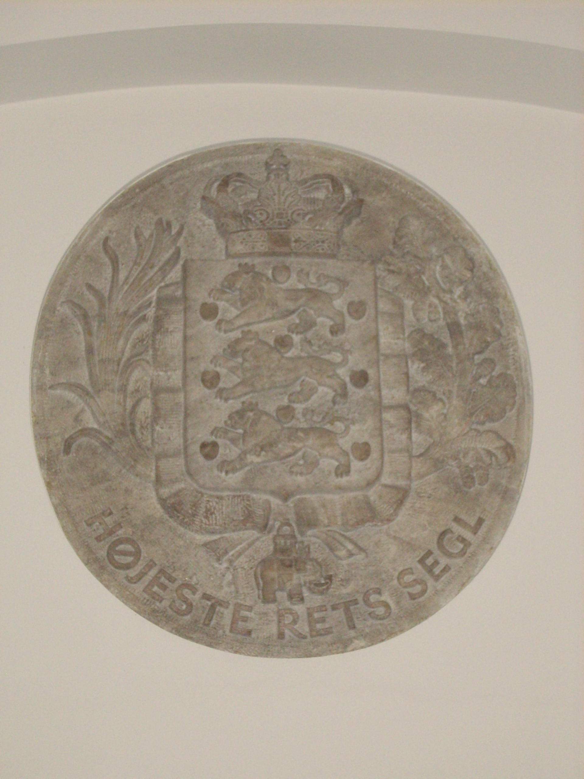 Seal of Højesteret (Supreme Court of Denmark).